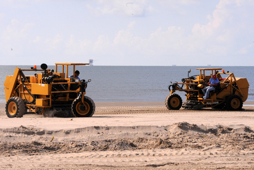 GRAND ISLE, La.-Contracted cleaning crews use machinery to sift tar balls from sand along the beaches of Grand Isle, La., August 8, 2010. Also in place along Grand Isle beaches is a sand washing machine, which separates tar balls from sand that will be placed back on the beach..